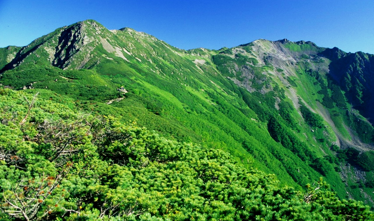 Mount Senjō from_Ridge_Sen-En 1995-7-28